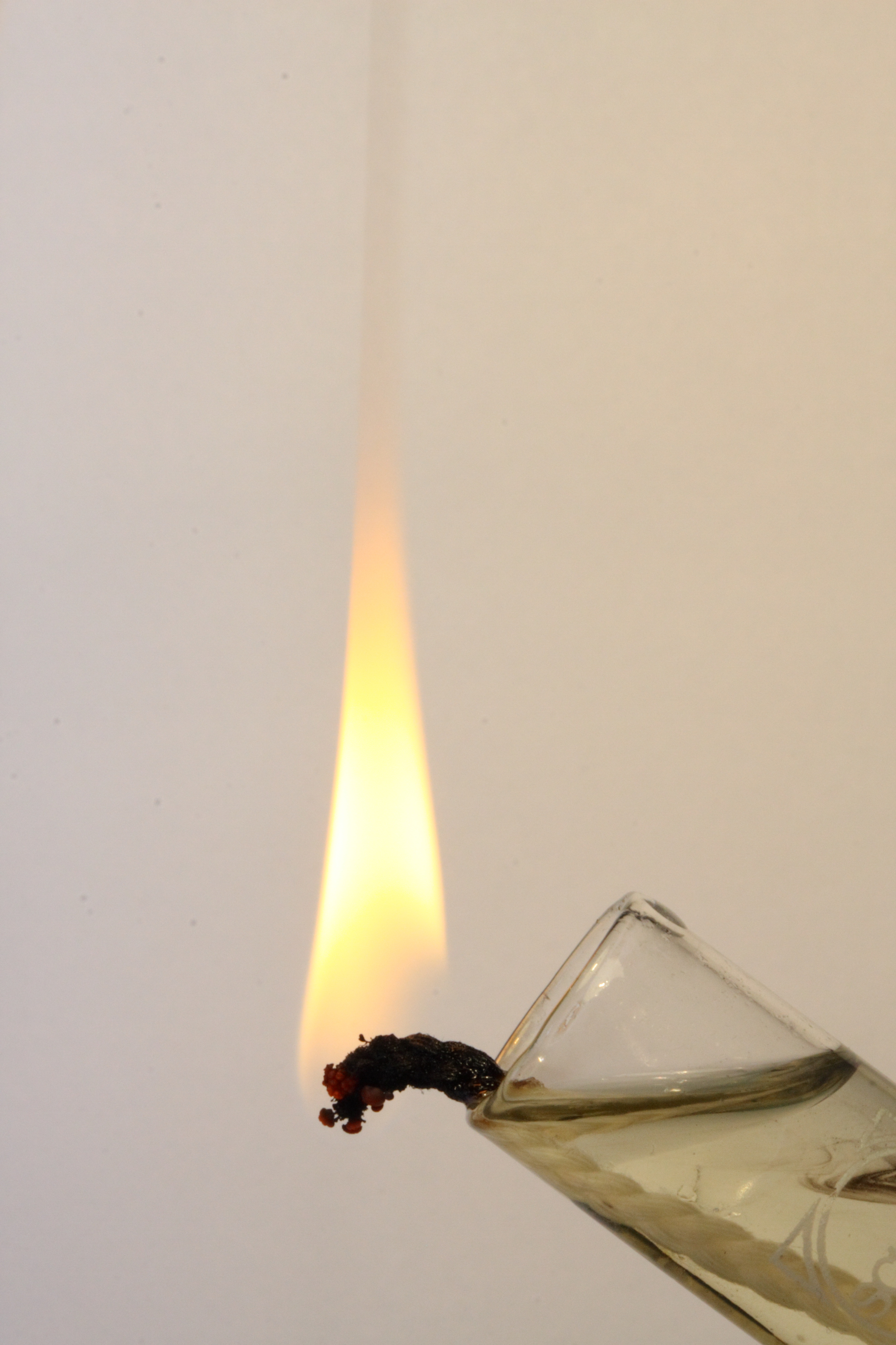 vegetable oil burning on a wick